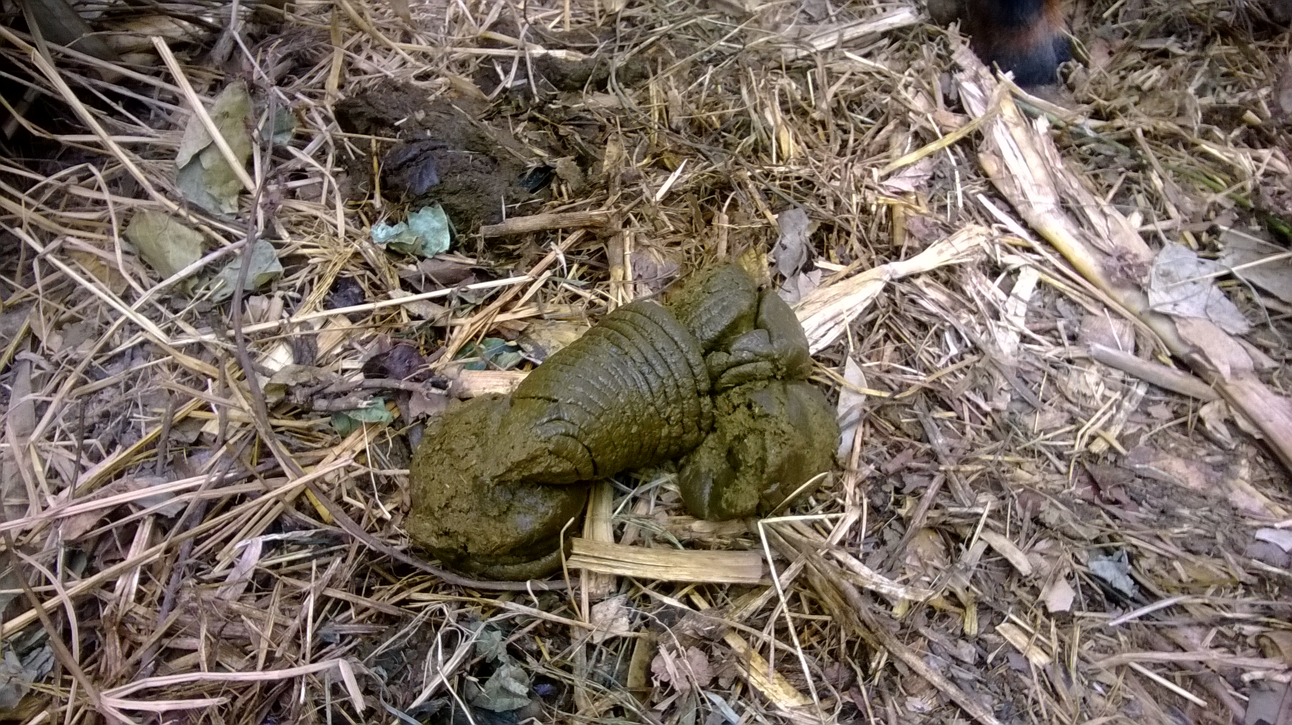 Cow dung which is used to make compost in Dulalthok Village.